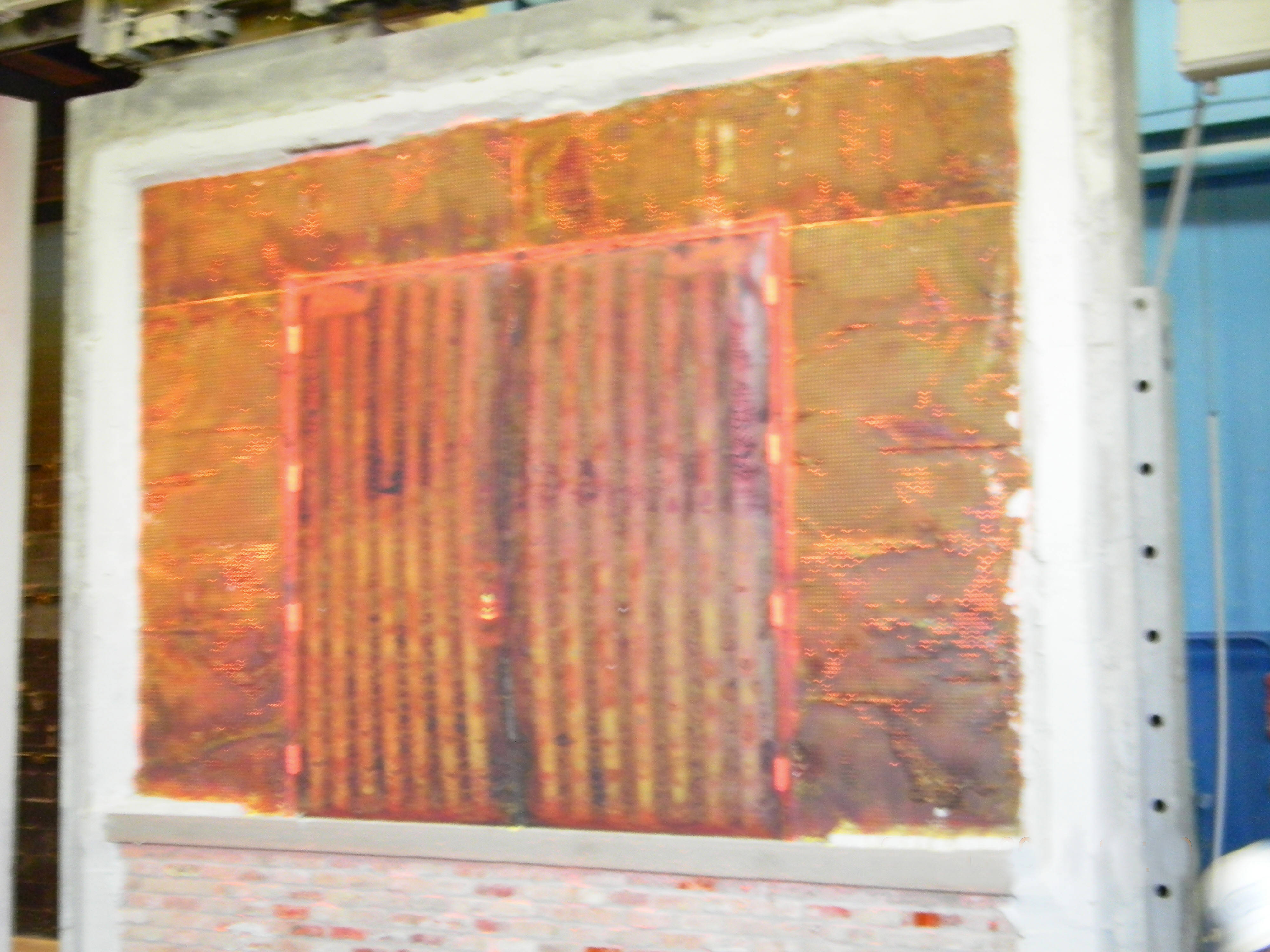 Exposed side of a 4 hour Durasteel wall per UL Design V460 with DuraSystems Type CFD fire door and CFF firedoor frame per UL Listing SP-2-003 after a 3 hour fire test (doors are derated from walls), immediately after being pulled away from the UL full scale panel furnace, in preparation for the 45PSI (3.1 bar) hose stream test.